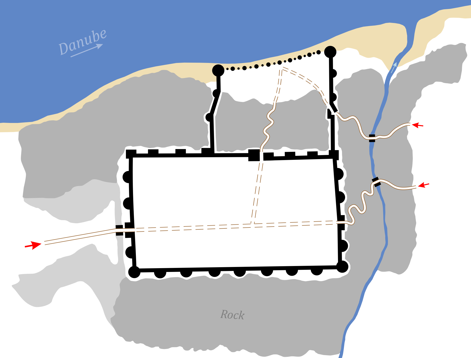 Plan of the Medieval Bulgarian fortress Nikopol Based on: [1]